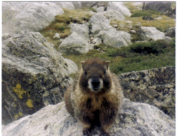 Yellow Bellied Marmot in Rocky Mountain National Park, Colorado in August 1986. I took this image and cleaned it up with Microsoft software